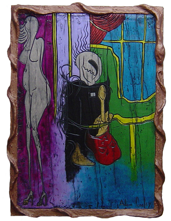 title: Cooking Dinner for the Little Lady medium: acrylic on wood dimensions: 51 cm x 73 cm